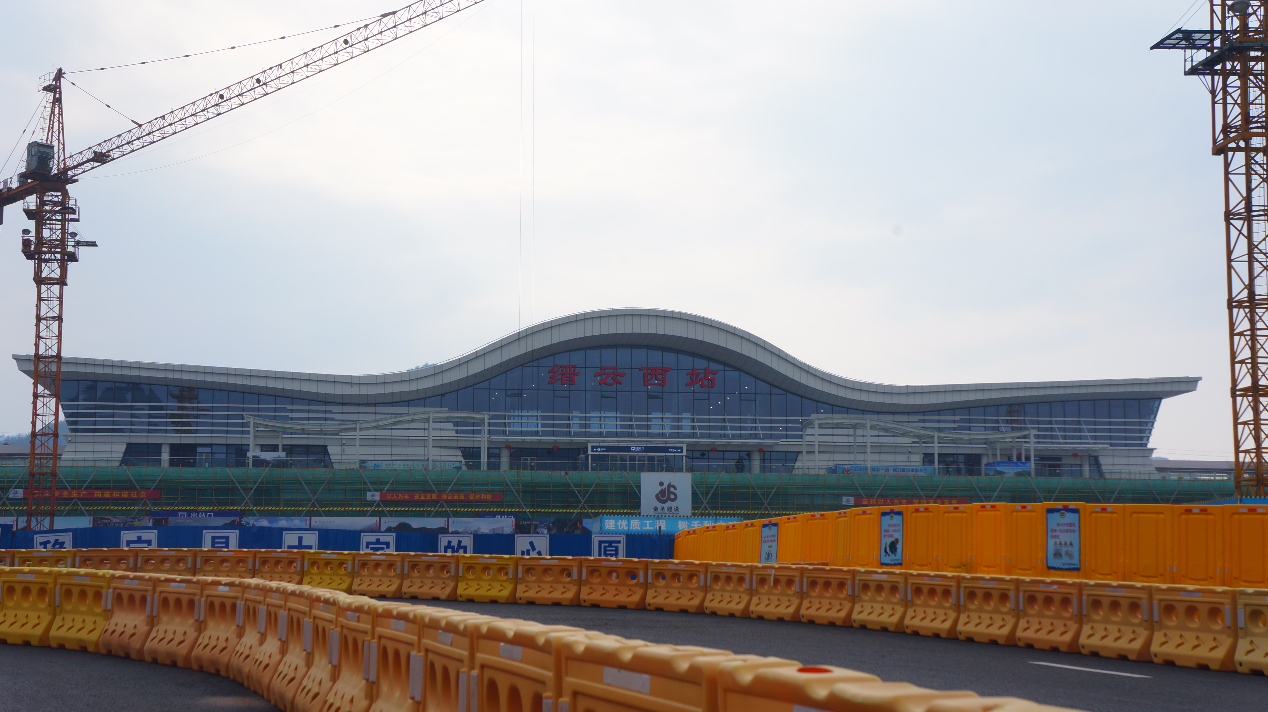 201603 Jinyunxi Station, the square in front of the main building is under construction